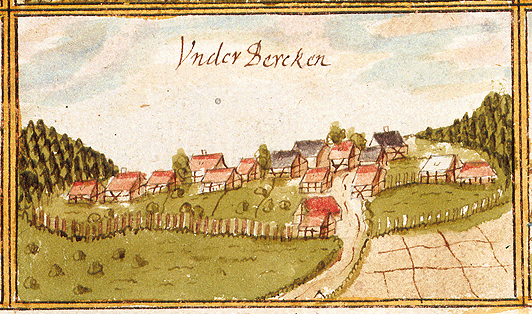 View of Unterberken, Oberberken, Schorndorf, from the forest register books created by Andreas Kieser